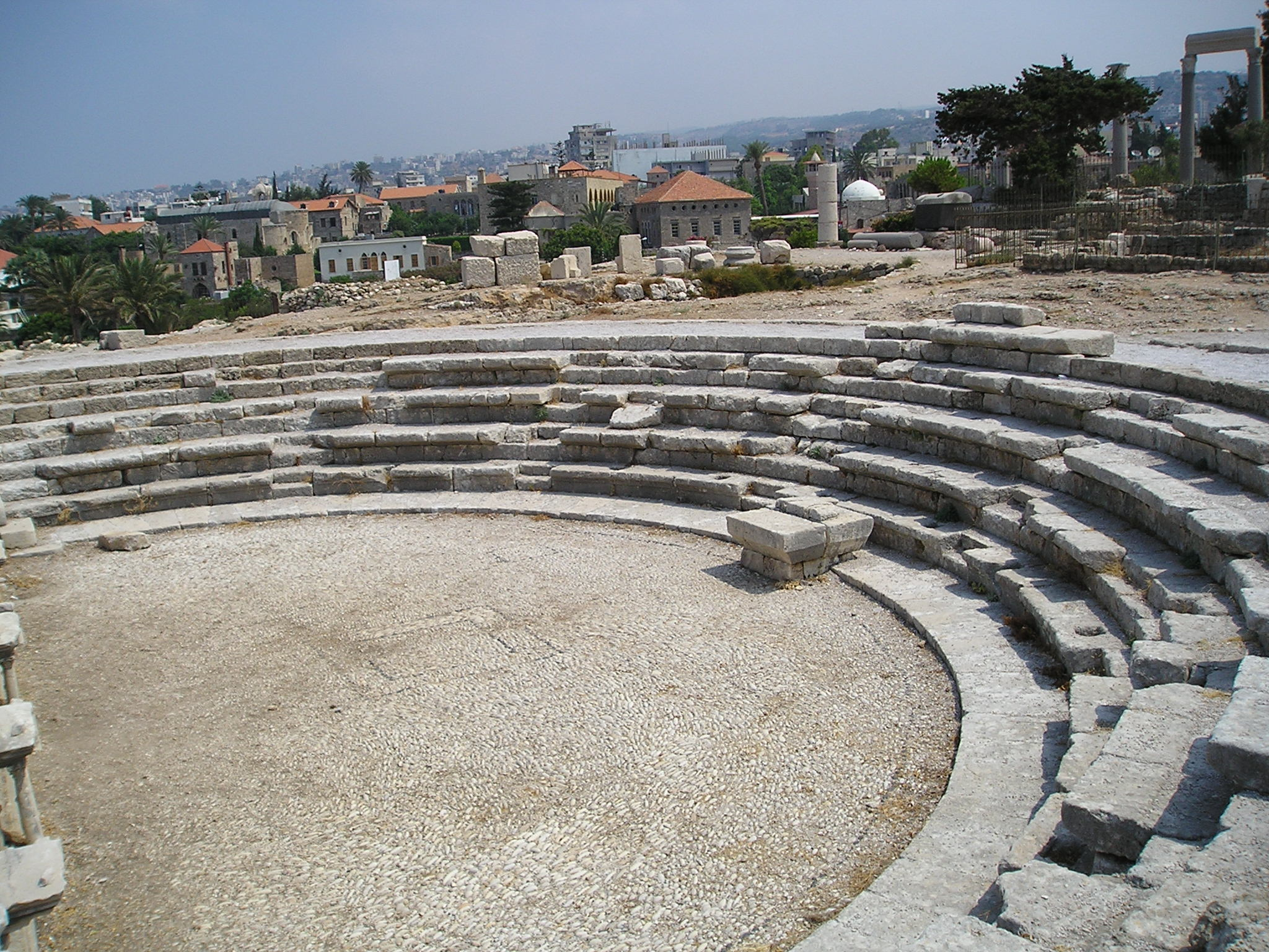 Byblos, Lebanon - Roman theatre